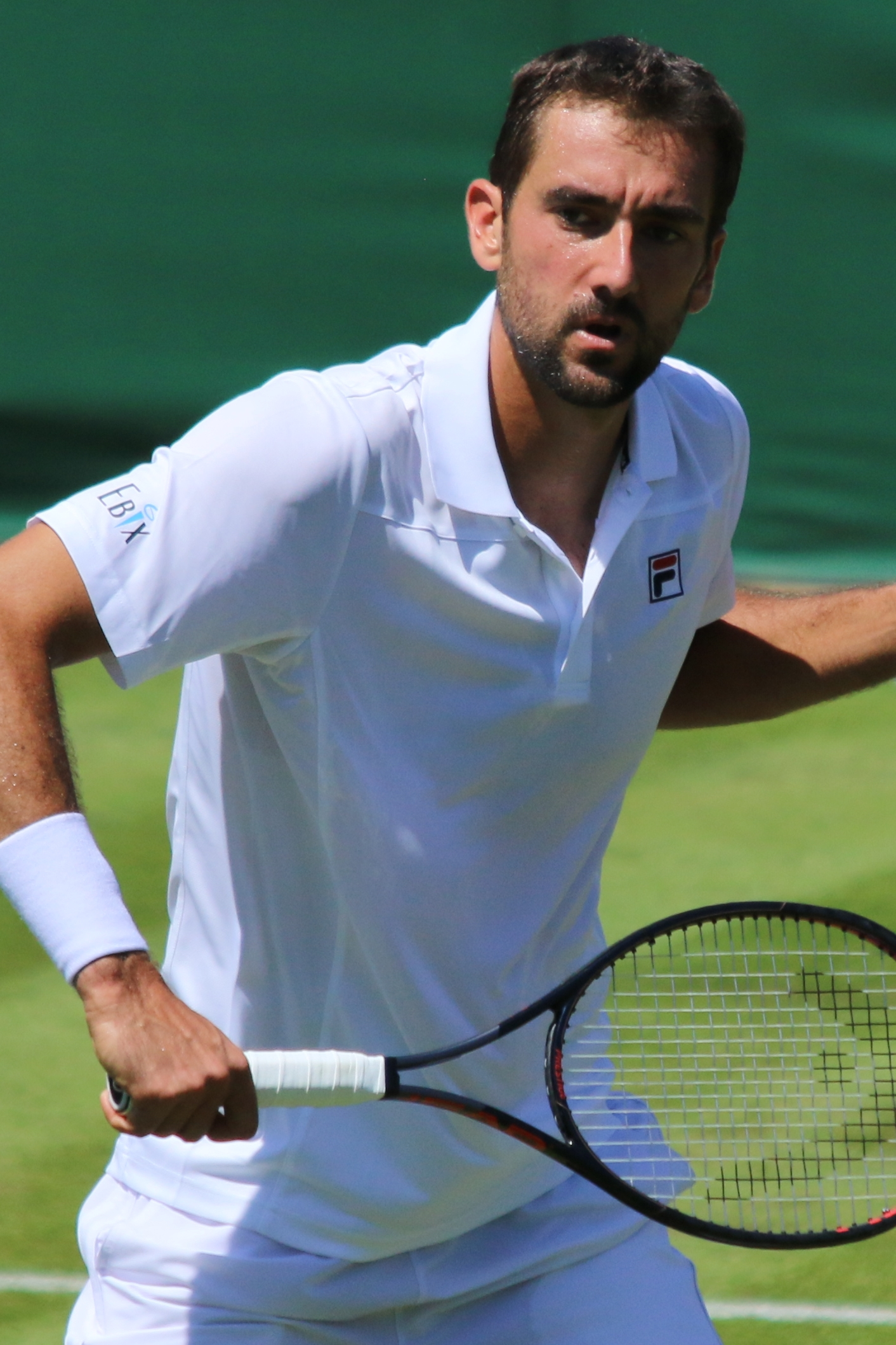 Cilic WM18 (62)